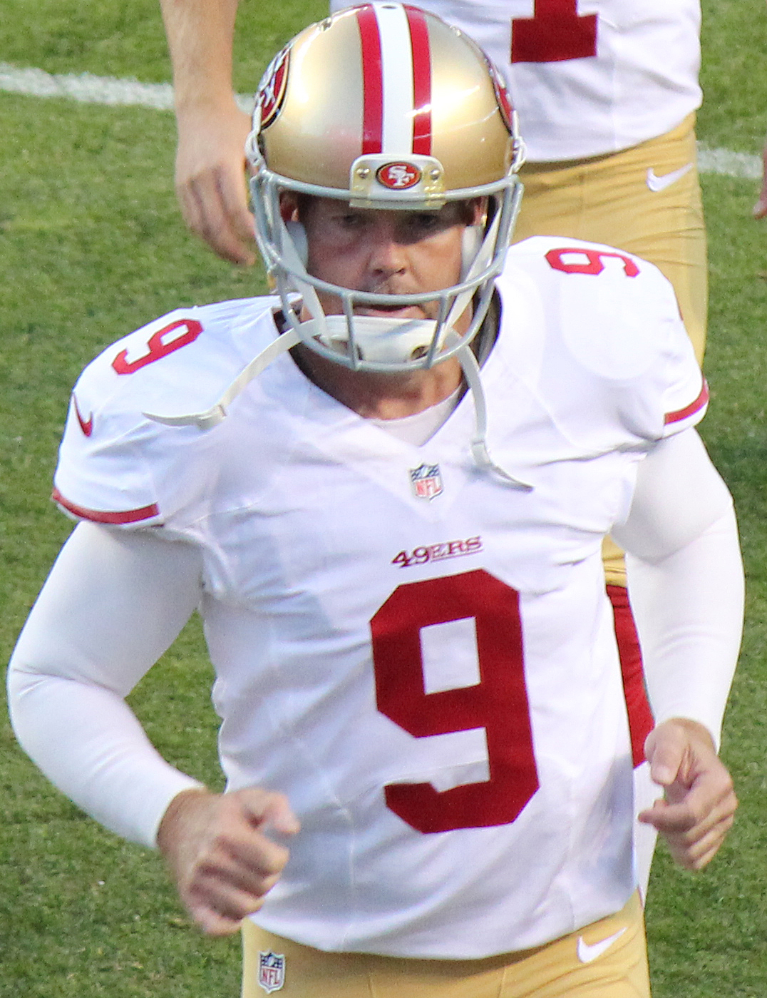 Phil Dawson, a player on the National Football League.